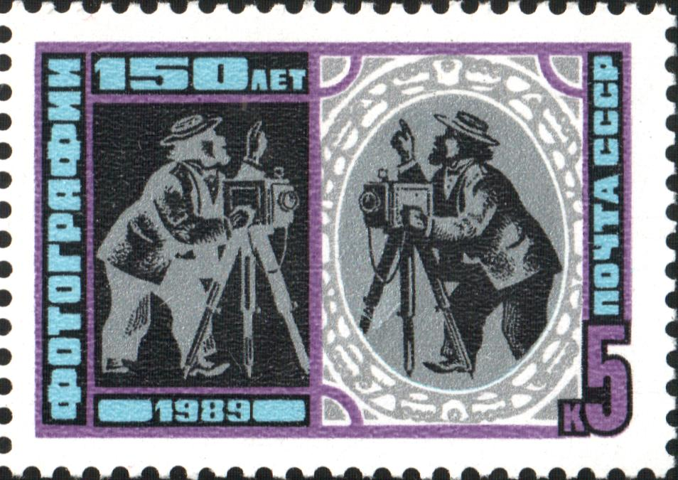 A USSR stamp